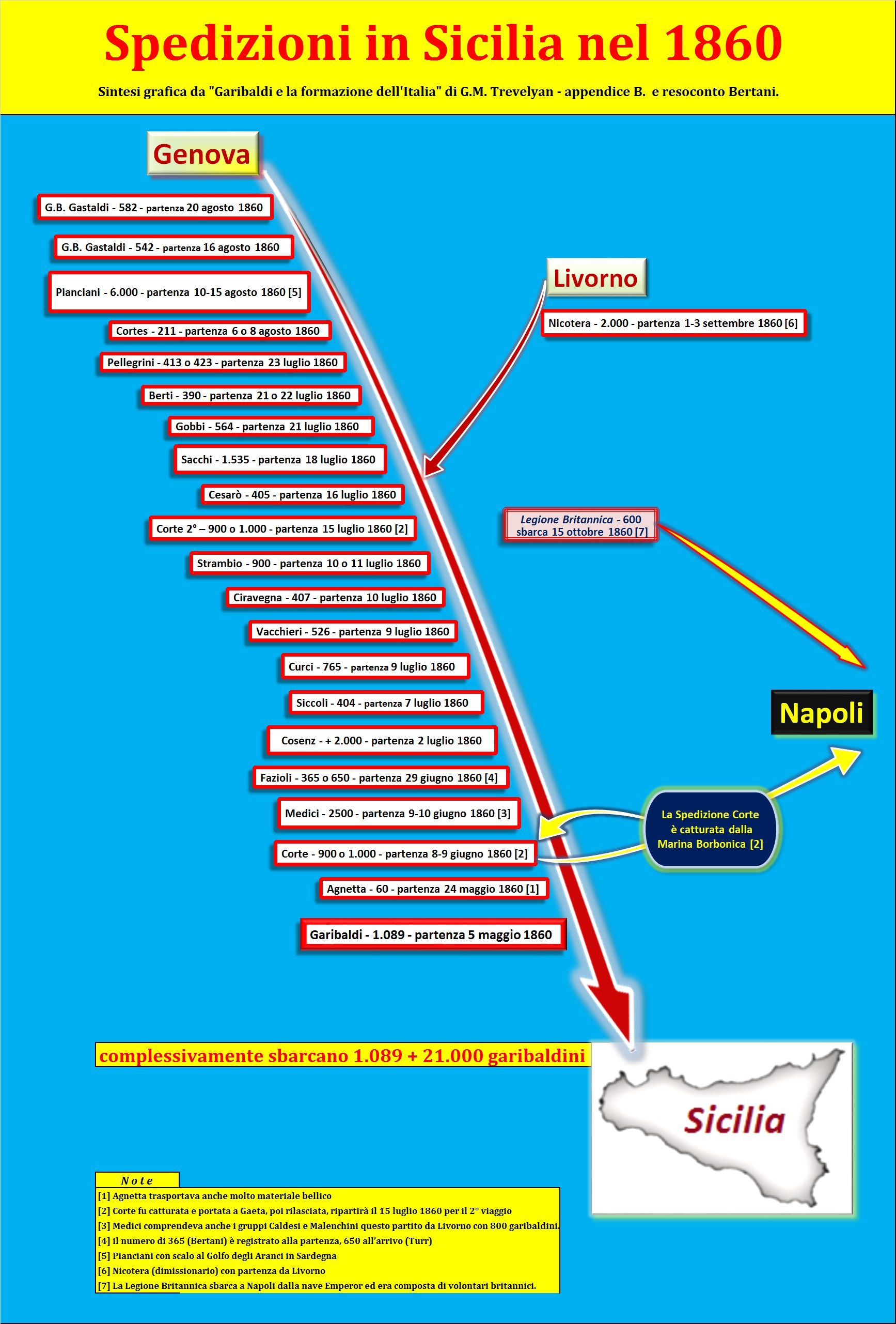 Sbarchi garibaldini in Sicilia nel 1860